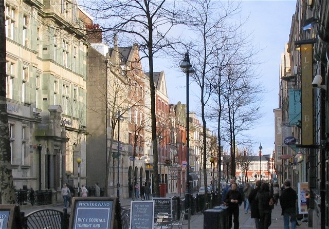 Wind Street, Swansea (Recreated) This is a recreation of the 1902 photograph from the Frith collection here: In recent years Wind Street has been redeveloped and now consists almost entirely of modern bars and a few restaurants.